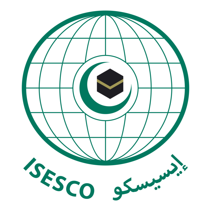 This is the latest official version of the ISESCO's logo